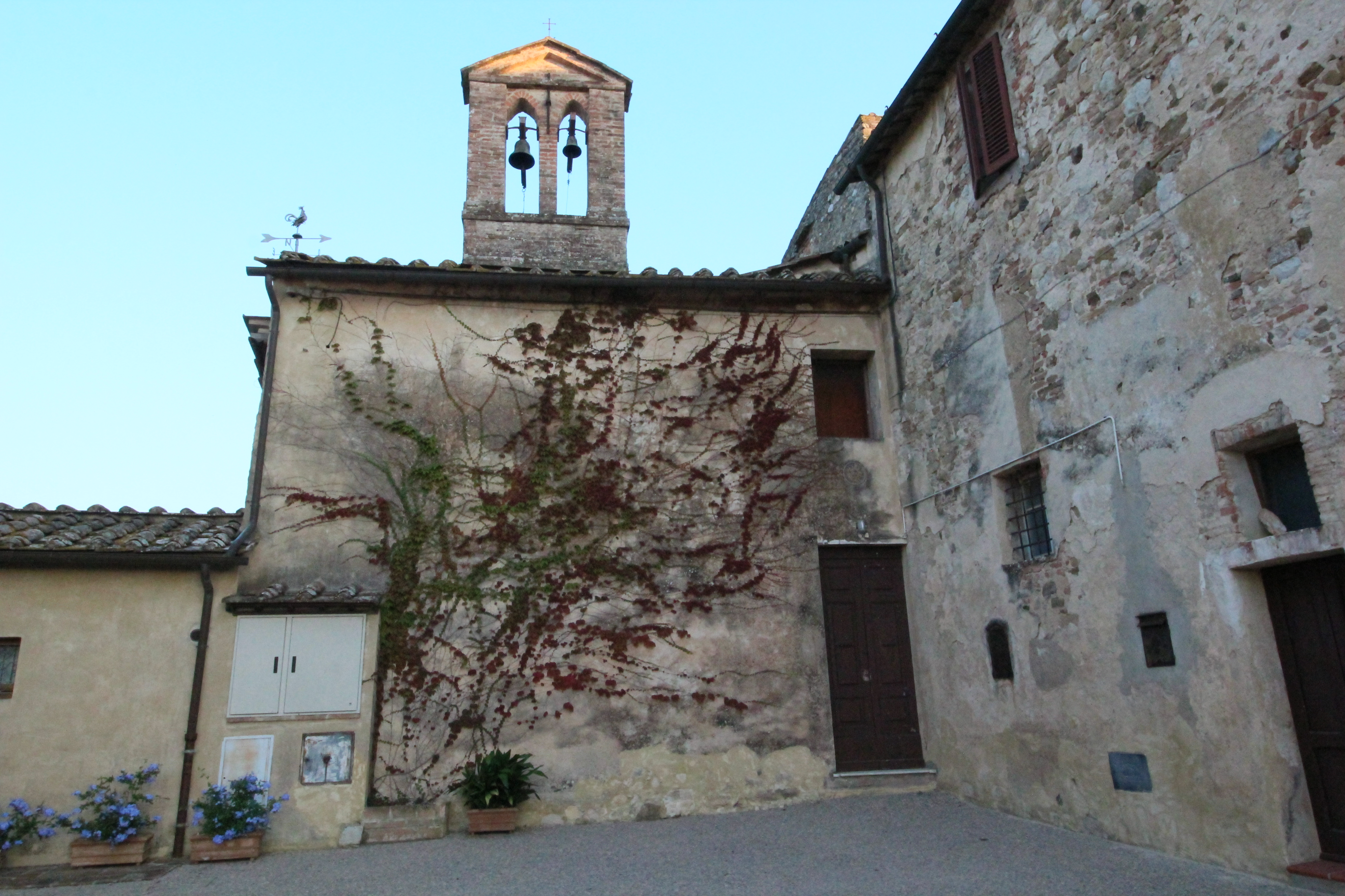 Church Santi Pietro e Paolo a Monteliscai, 11th Century, Monteliscai, village and castle in the territory of Siena, Province of Siena, Tuscany, Italy